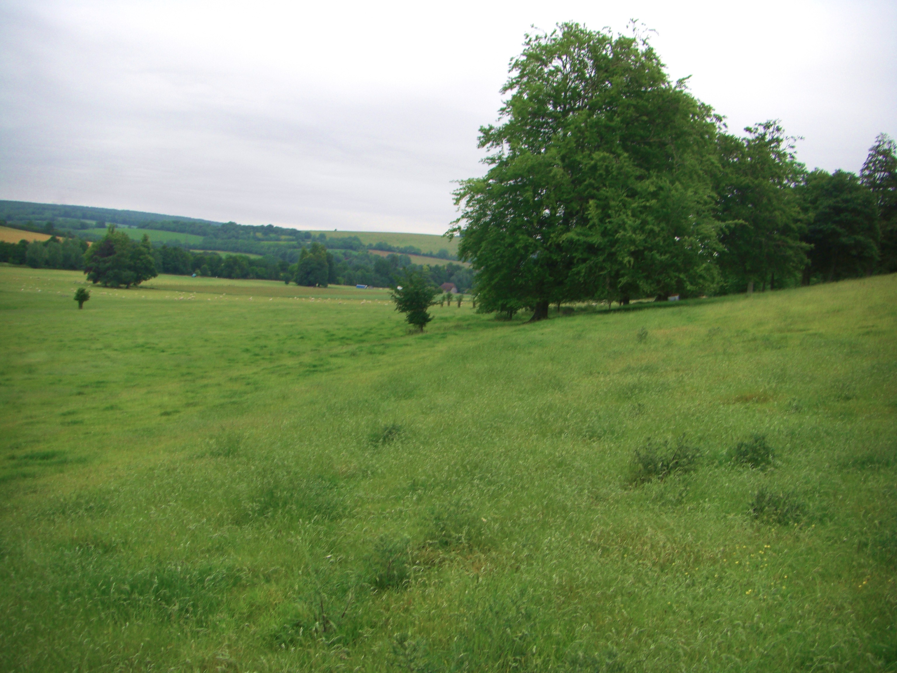 A Bronze Age lynchet found on the grounds of West Dean Art college.